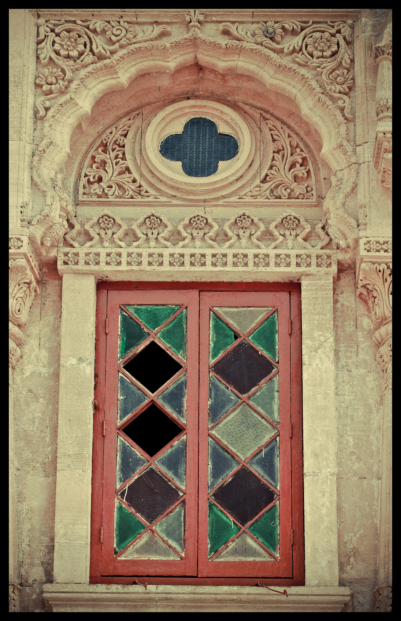 Clicked near pune